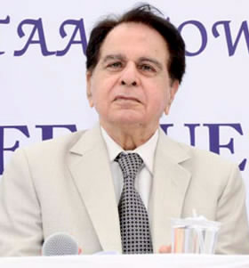 Dilip Kumar at the Foundation Stone Laying Ceremony of CINTAA Tower